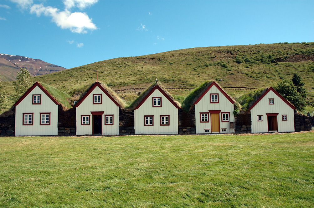 The turf houses at Laufas, built between 1866-1877.